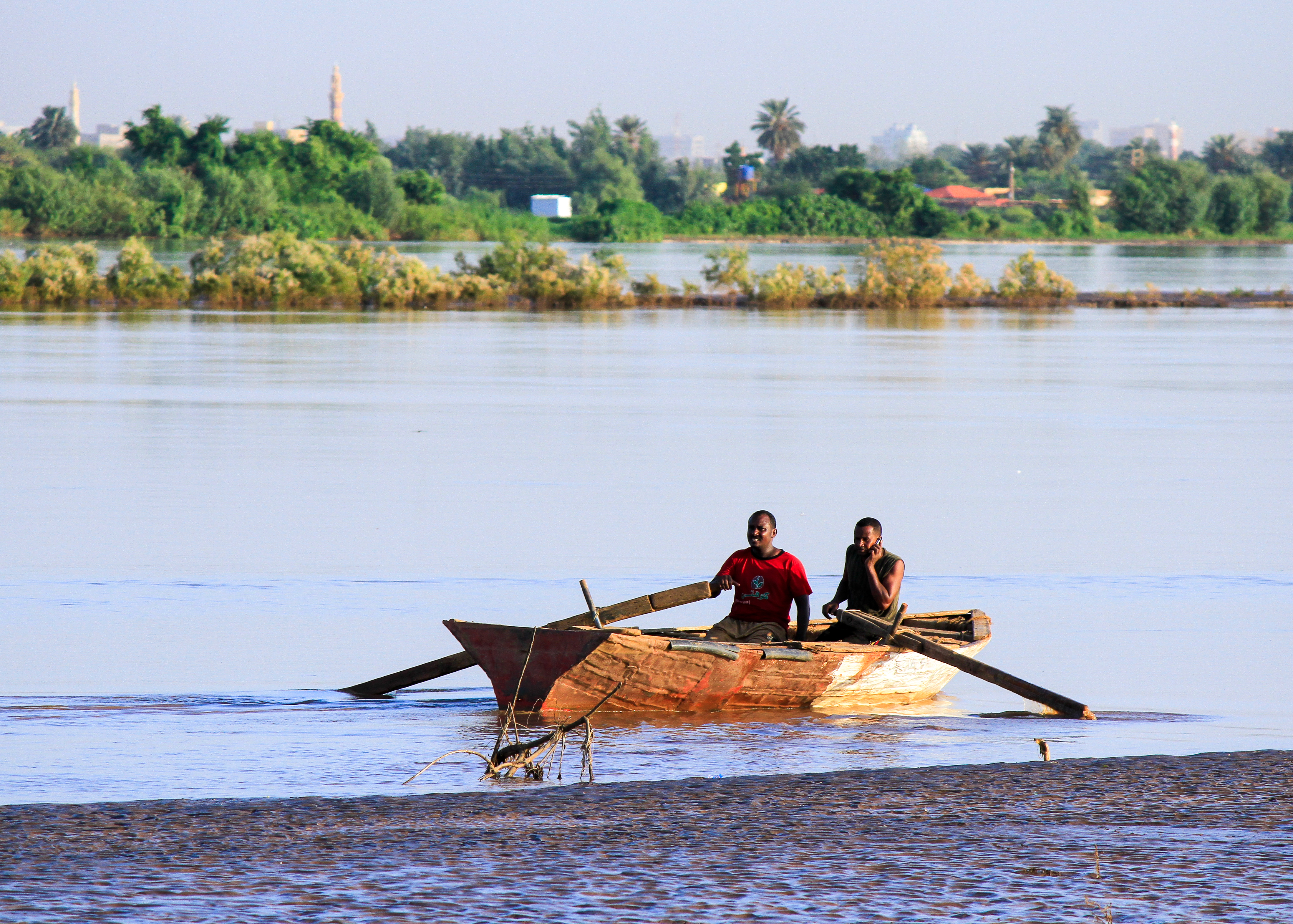 Fishermen on the Nile in Omdurman